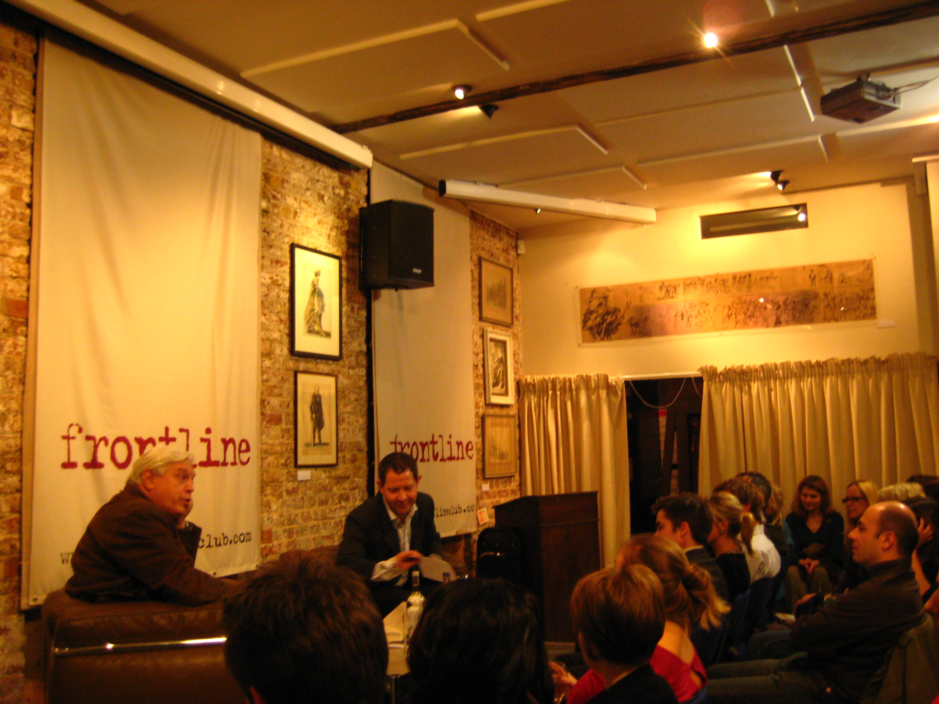 Meeting at the Frontline Club, London, with BBC reporter John Simpson